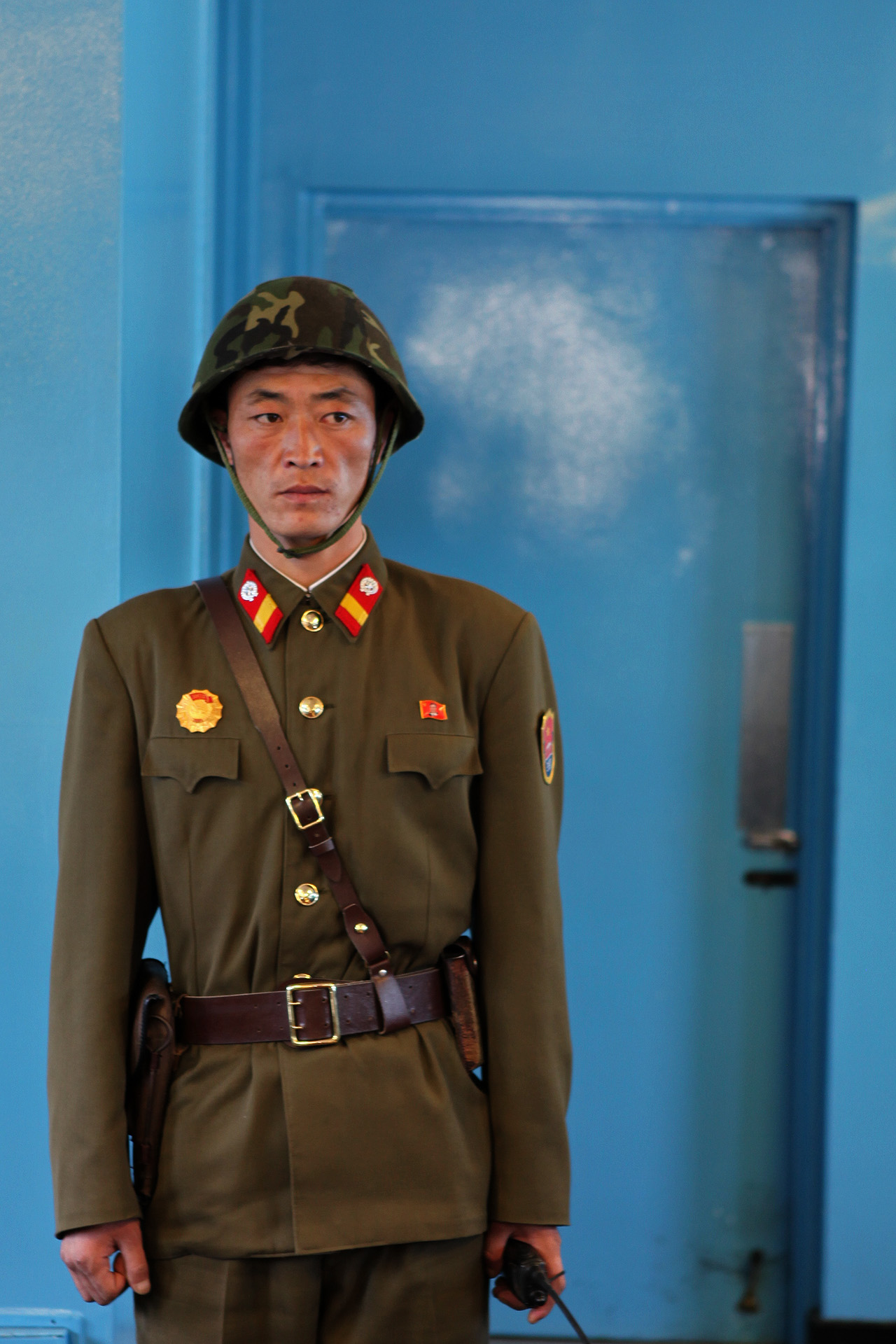 DMZ - between South and North Korea. Absurd border - just behind that door is another country: South Korea!